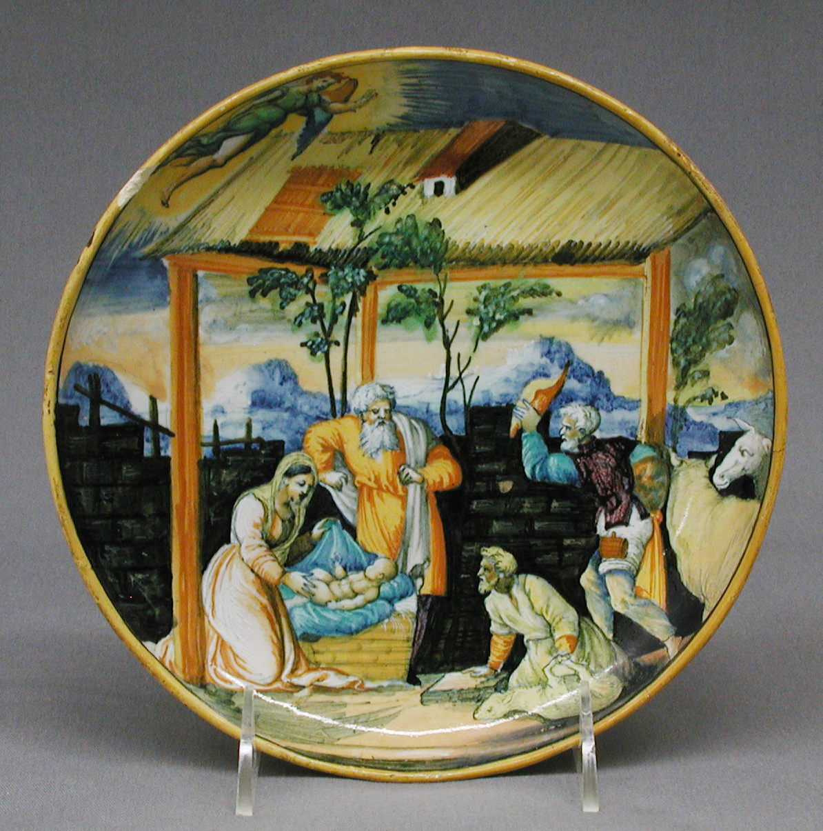 Italian, Urbino; Dish; Ceramics-Pottery